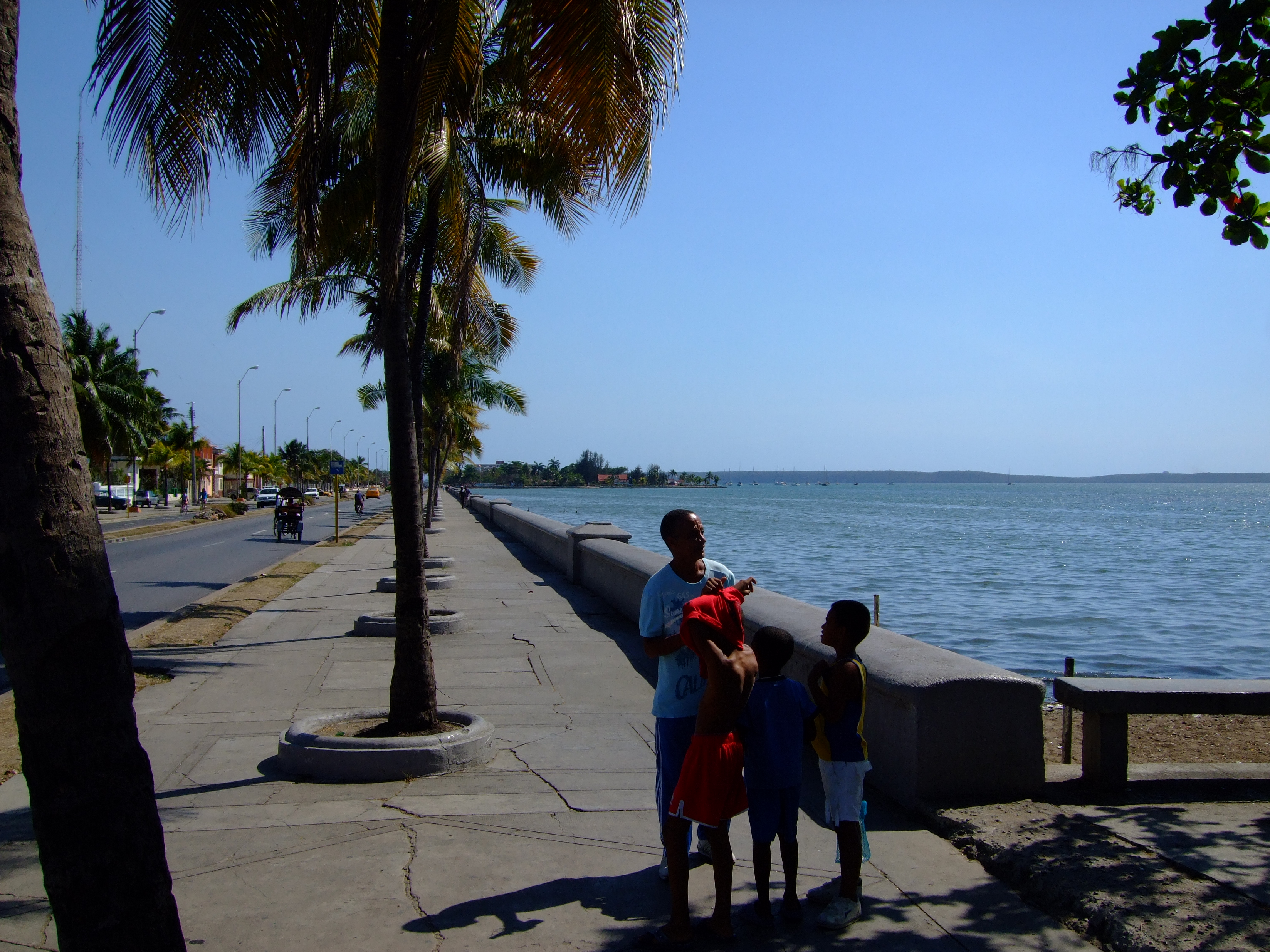 Promenade (Calle 35) at the Bahía de Cienfuegos, Cienfuegos, Cuba.